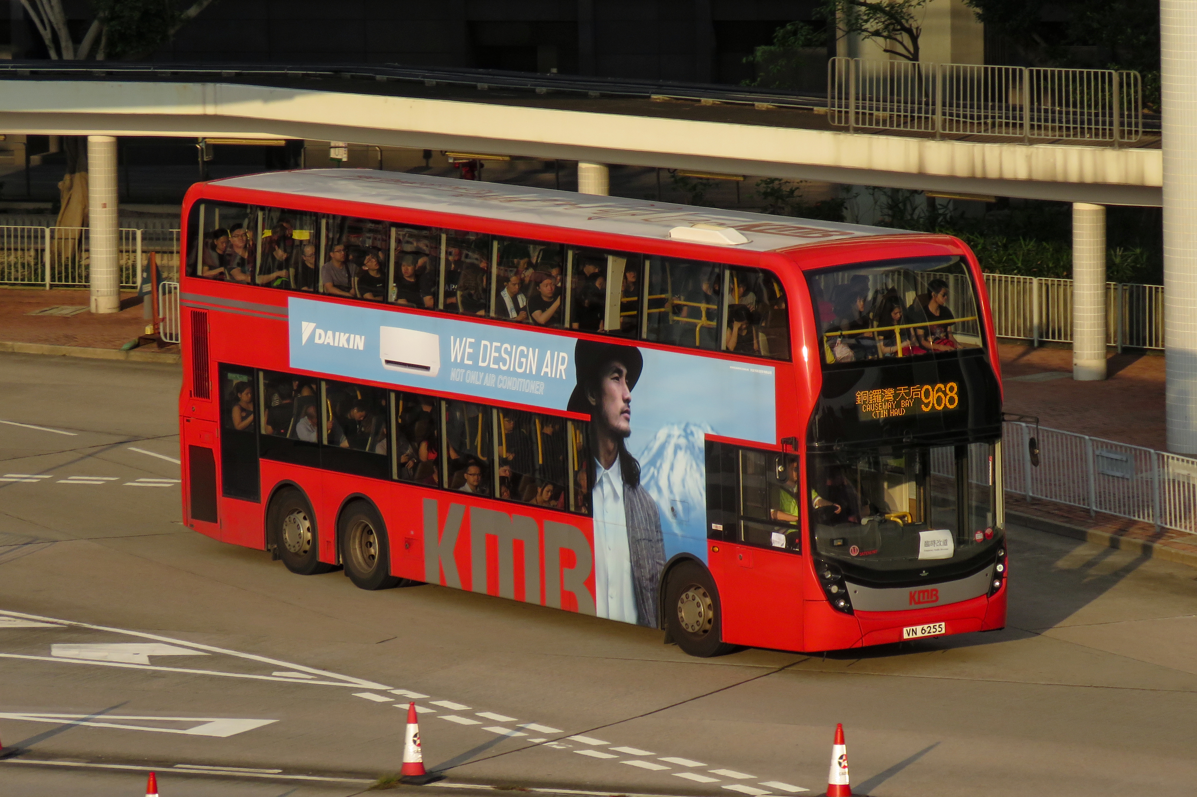 968 is always busy like a bee...